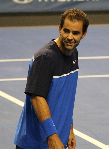 Pete Sampras playing in Champions Shootout, Philadelphia